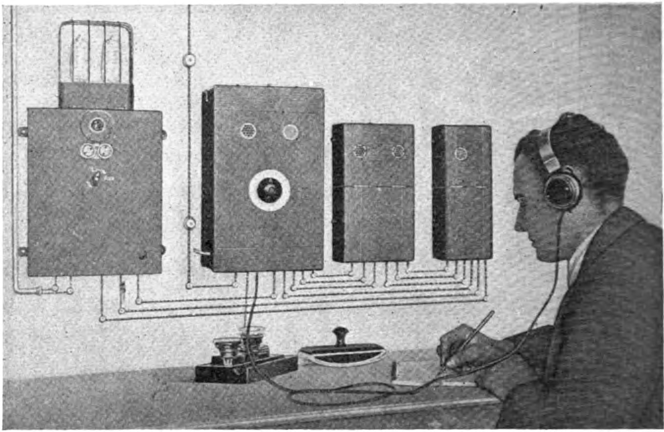 German man in 1923 listening to a subscription radio receiver provided by the German post office. AM radio broadcasting in Germany began in August 1922 as a subscription service offered by the German Post Office. For a monthly fee the Post Office provided this vacuum tube radio receiving apparatus. It only received one station, on 4000 meters (75 kHz) broadcast by a network of 12 10 kW transmitters throughout Germany run by the Post Office, with content provided by the Berlin Telegraph Agency, Eildienst, GmbH. It's distinctive feature was its ease of use. At a time when radio receivers were cumbersome devices with many knobs and dials that had to be adjusted correctly and required several batteries to work, this set ran off household current and had only a single adjustment knob (center), a vernier tuning knob to keep it on frequency. Taking the earphones off the hook turned on the power and warmed up the filaments. The vernier adjustment could only adjust the frequency by 2%, to meet the Post Office requirement that the receiver not be able to pick up any other stations, preserving its monopoly over broadcasting in Germany. Caption:"Complete broadcast receiving equipment as installed by the German Post Office. The instrument on the left provides filament heating and plate current from the DC mains. The tuner is in the center and the instruments on the right are double and single LF amplifiers"